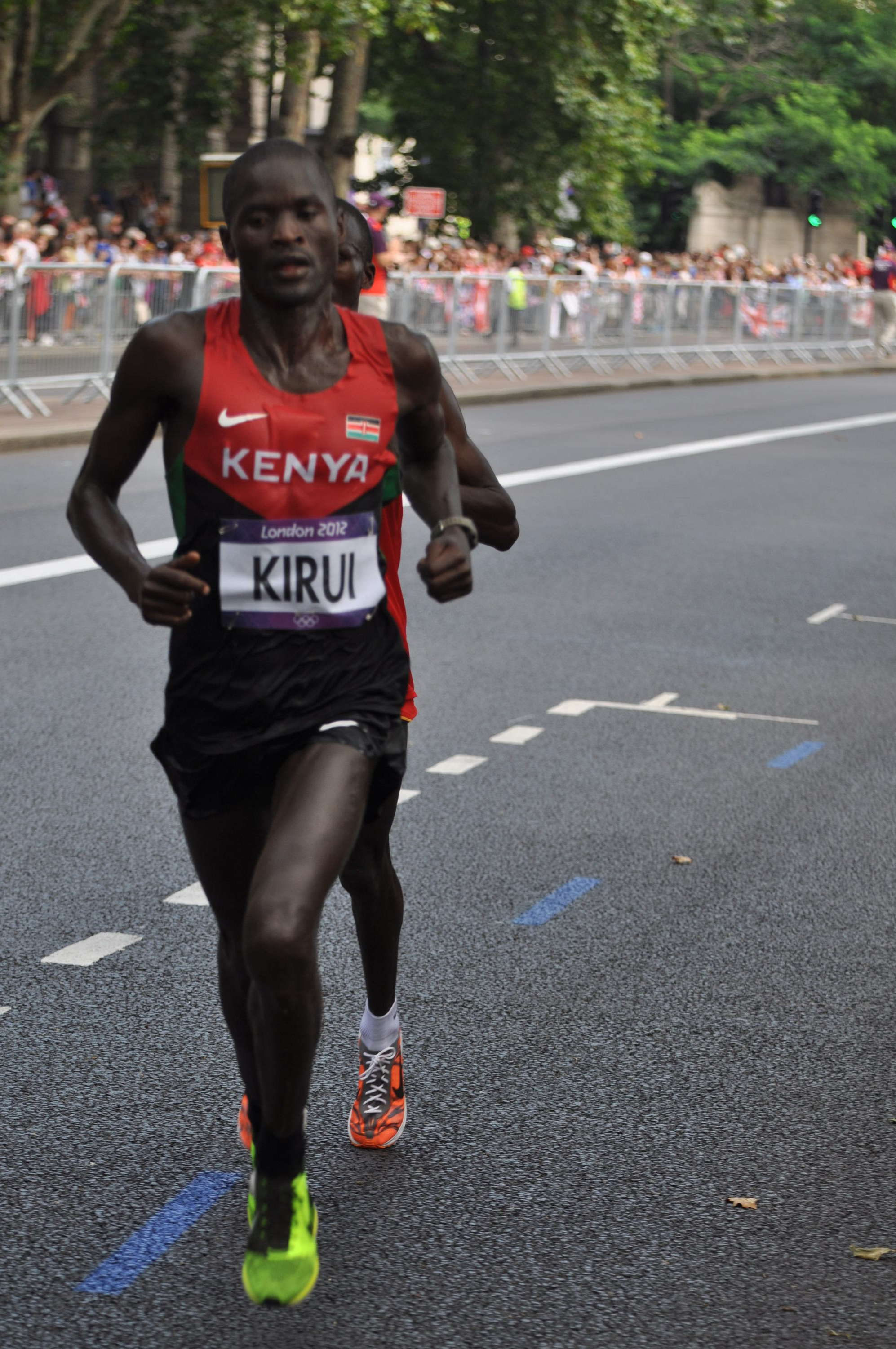 The men's marathon of the 2012 Summer Olympics in London, UK took place on an Olympic marathon street course on Sunday 12th August 2012 at 11:00. This was the final day of the 30th Olympic Games. The London 2012 marathon course is the standard Olympic distance of 26 miles 385 yards and consists of one short lap of approx 2.2 miles followed by three longer laps of 8 miles. The course began on The Mall and travelled past several of the most famous London landmarks. The start/finish line was near the Victoria Memorial. These photographs were taken at the Victoria Embankment. This featured several times on the looped course. The approximate location from the photographs is shown in the Google StreetView Link below. Stephen Kiprotich won in 2 hours, 8 minutes, 1 second as he pulled away from the Kenyan duo of Abel Kirui and Wilson Kiprotich Kipsang. These photographs are unofficial photographs. They are not endorsed by London 2012. There are not commercially available. They are available for use under a Creative Commons License. Please link back to the photograph on my Flickr account if you use the image.